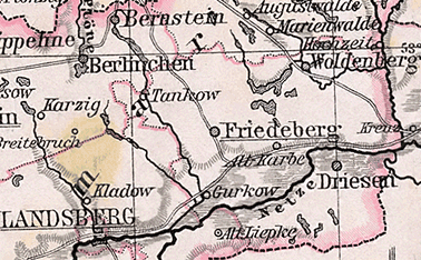 Detail from a map of Brandenburg.